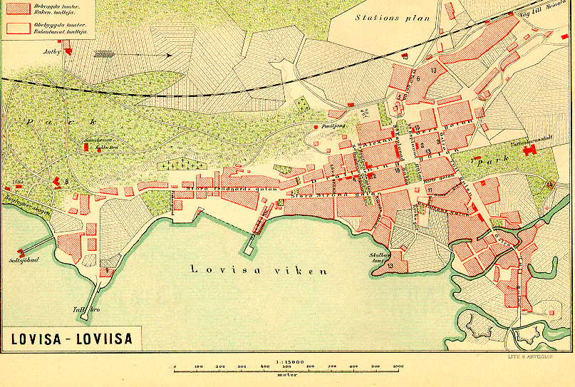 Map of Loviisa, Finland (1902)